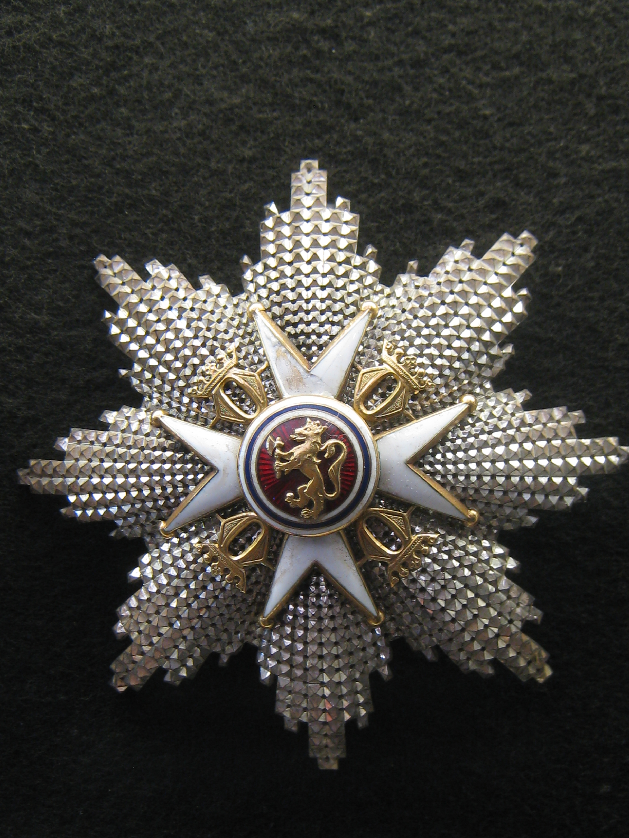 Order of St Olav, Star (Norway), from the collection of Don Pedro Christopherson. In the Fram Museum, Oslo, Norway.